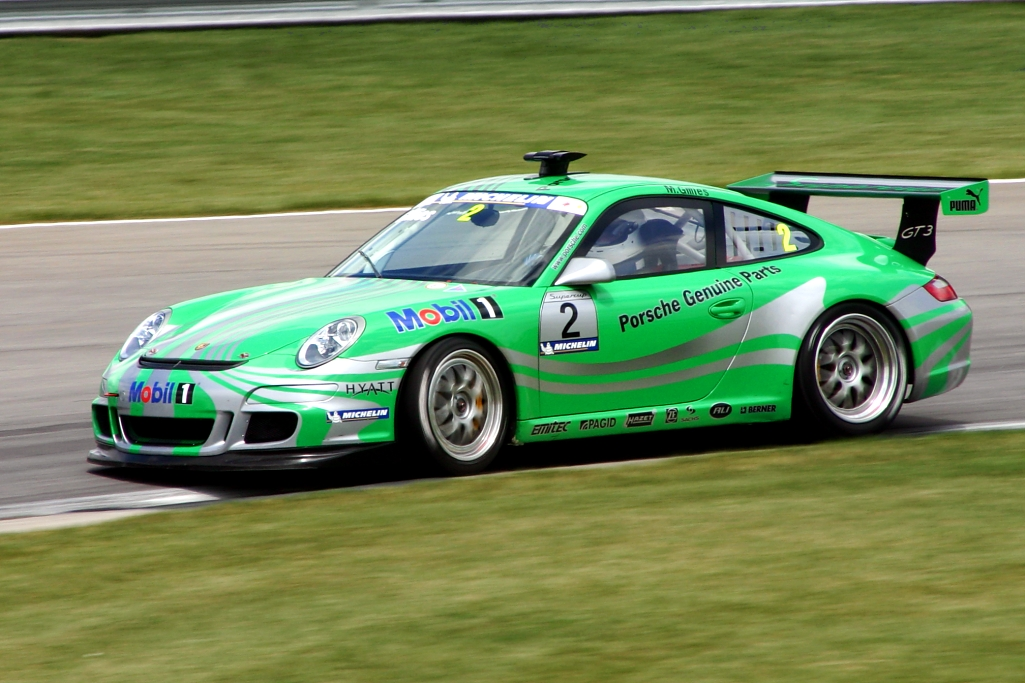 American Mark Gillies driving at Indianapolis Motor Speedway in the Porsche Michelin Supercup series, a support race for the en:2005 United States Grand Prix, 6/18/2005, by Rick Dikeman.